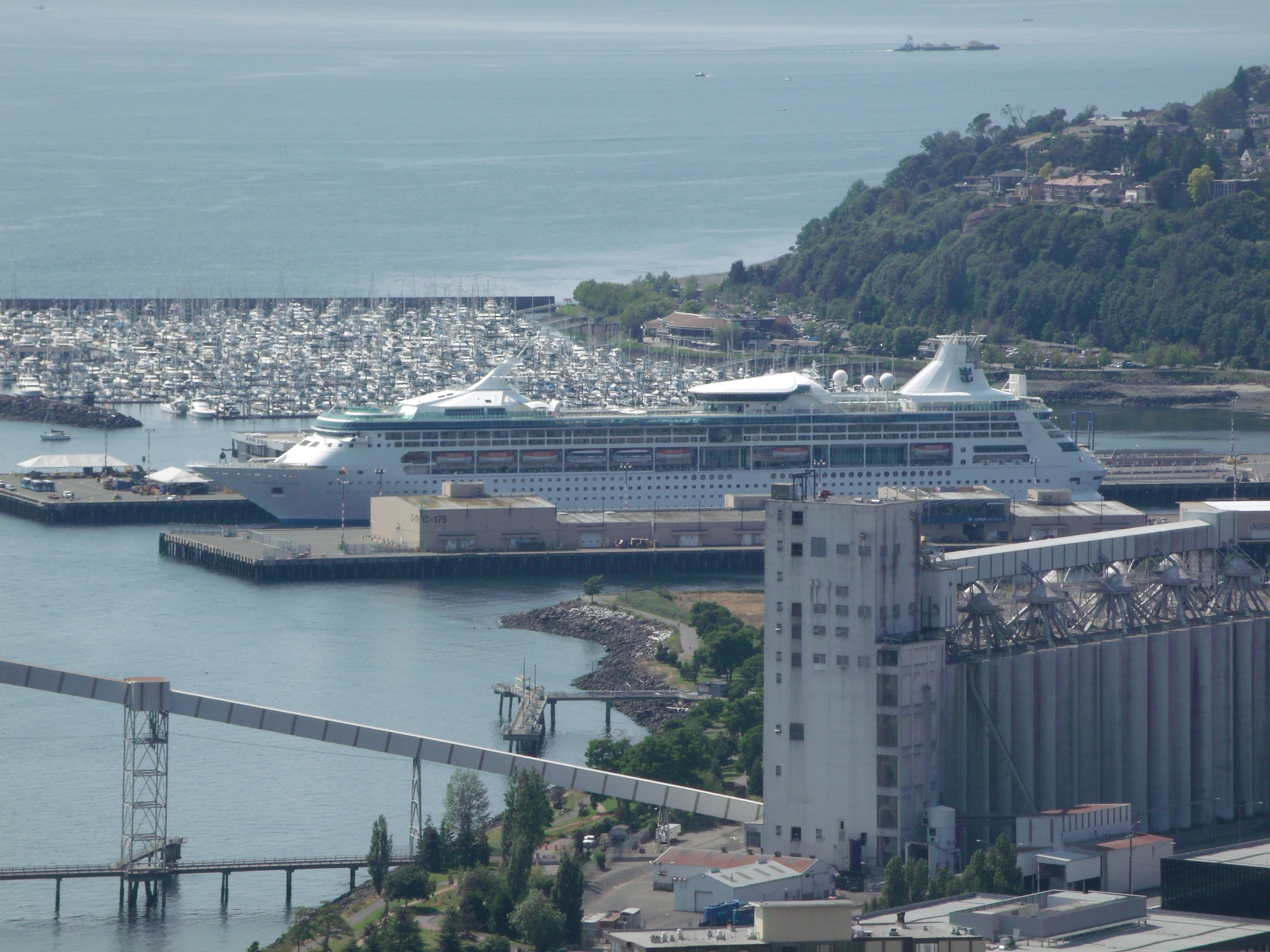 The Rhapsody of the Seas docked at Seattle, Washington